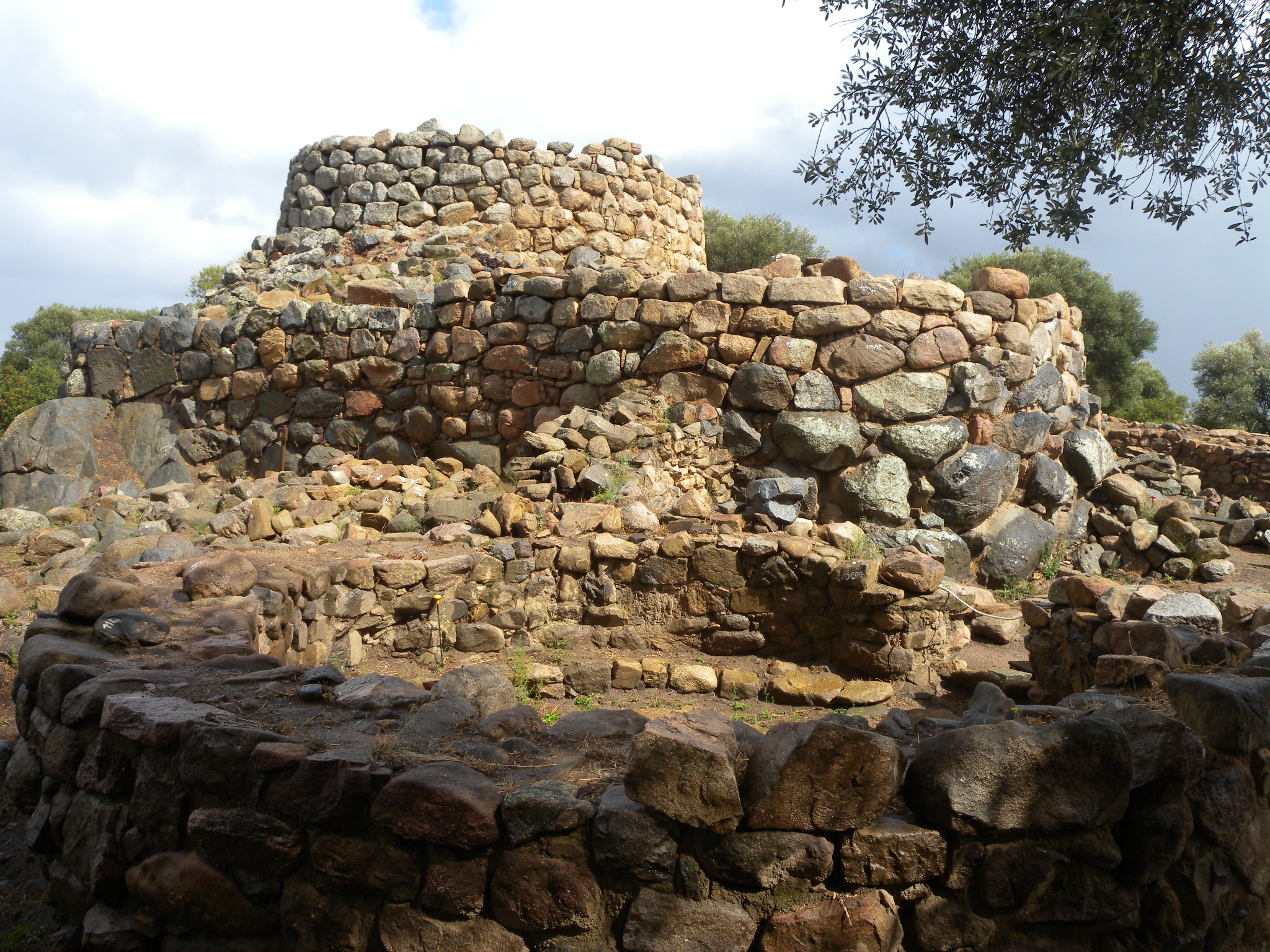 Nuraghe in Arzachena-Prisgiona